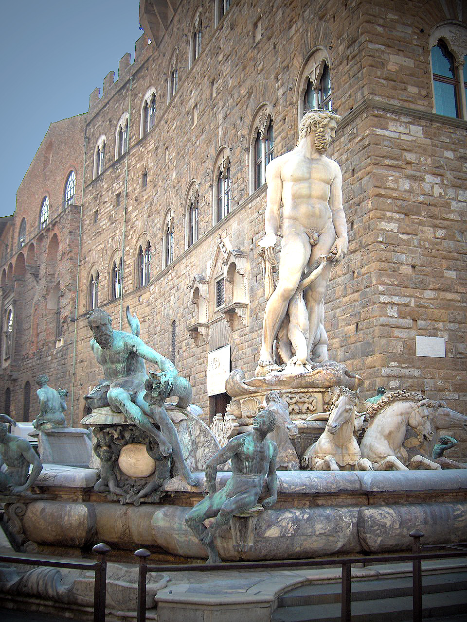 Neptune fountain (Fontana del Nettuno) on the Piazza della Signoria in Florence, Italy Own photo - photo made on 12 October 2005